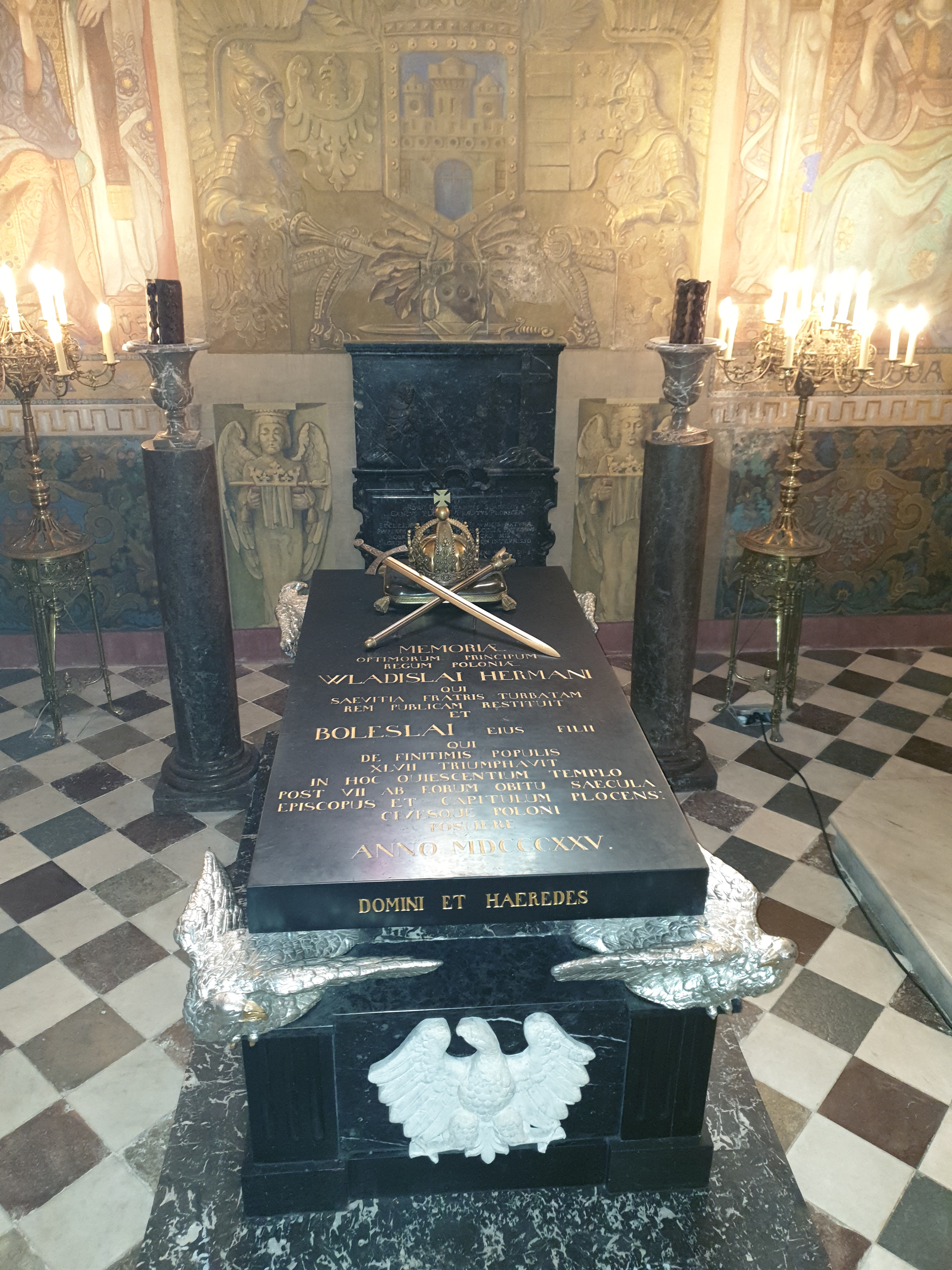 Tomb of Wladislaus I Herman of Poland, Płock, Poland, April 2019